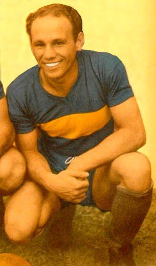 Former Boca Juniors midfielder, Natalio Pescia, during his time with Boca Juniors in Argentina. He played his last game for the club in 1956.